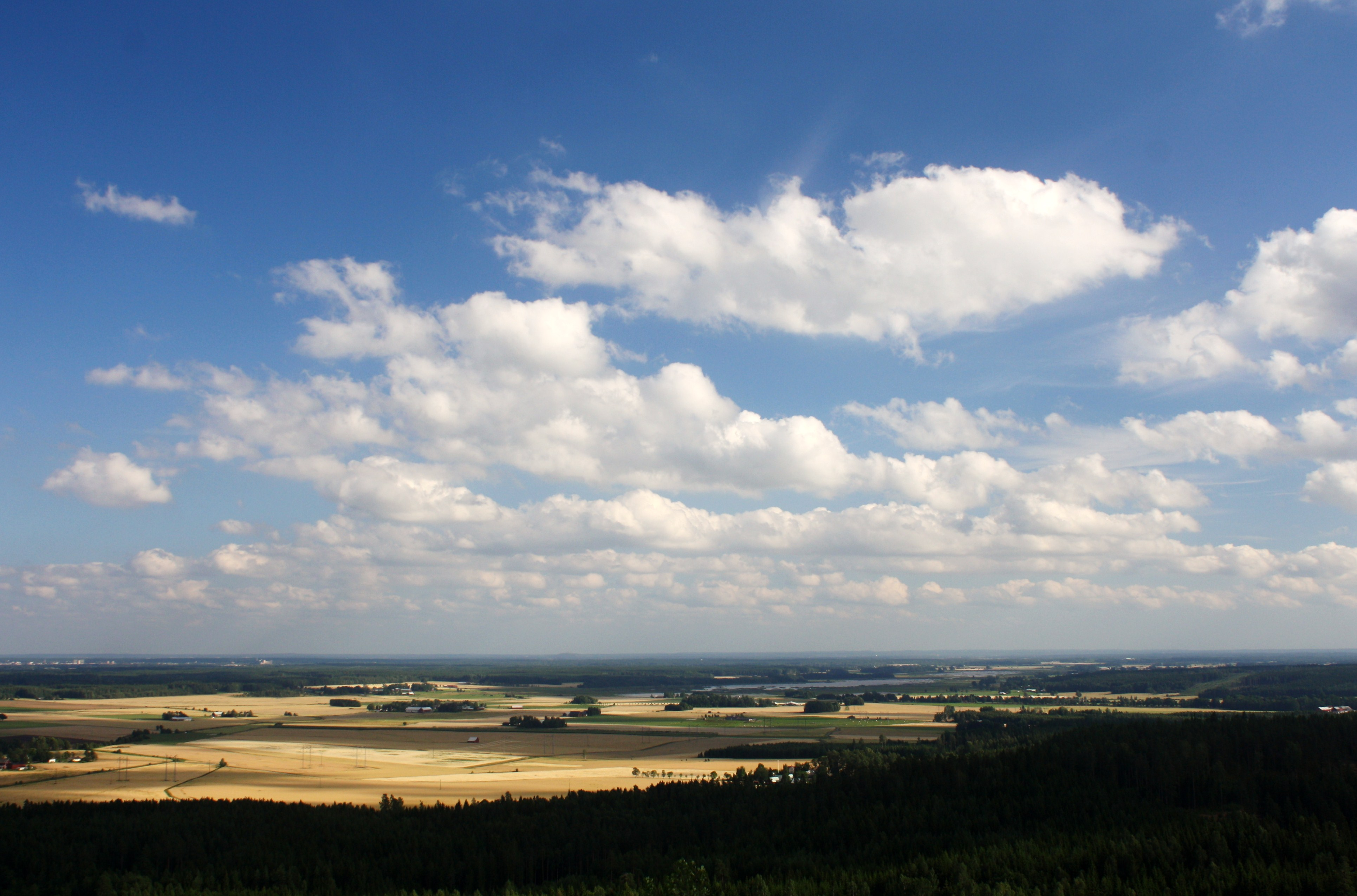 Top of the world. View from Ullaviklint, Kilsbergen Sweden